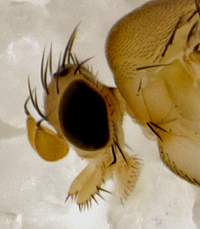 Adult female Apocephalus borealis, head = detail of photography from authors=Core A & al. (2012) ; A new threat to honey bees, the parasitic phorid fly Apocephalus borealis ; journal=PLoS ONE volume=7, issue=1, doi=10.1371/journal.pone.0029639 [1] 04 January 2012